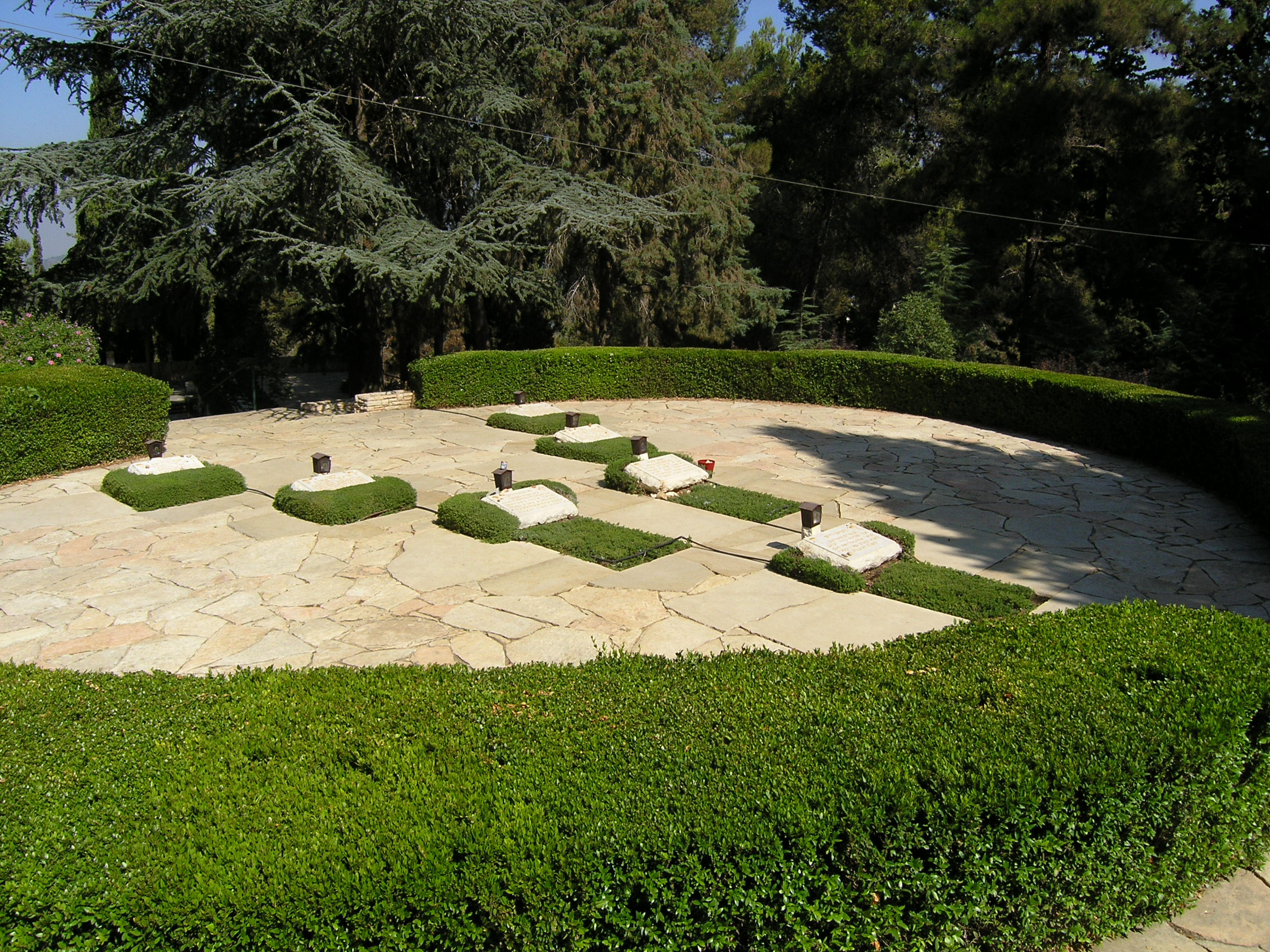 Jewish Parachutists of Mandate Palestine graves, Jerusalem (Israel)